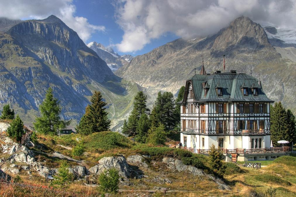 Villa Cassel, at 2000 metres above Riederalp. Situated near the great Aletsh glacier, it hosts a nature centre of Pro Natura.